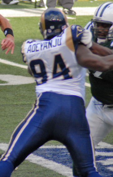 Brett Favre throwing, Rams vs Jets 2008